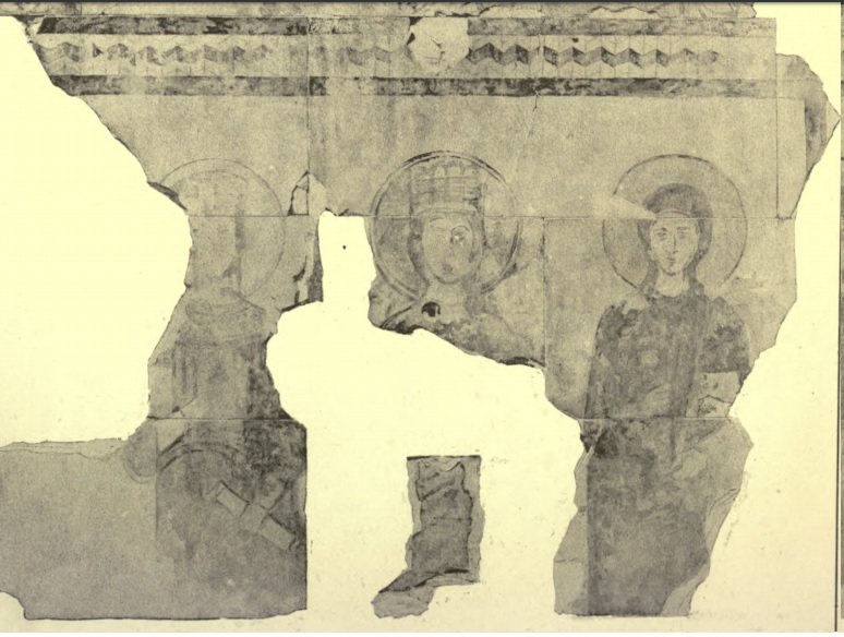 Byzantine hagiographies on the walls of Parthenon (Acropolis, Athens), as sketched by Marquis de Bute (1885) and published by Westlake in 1887.